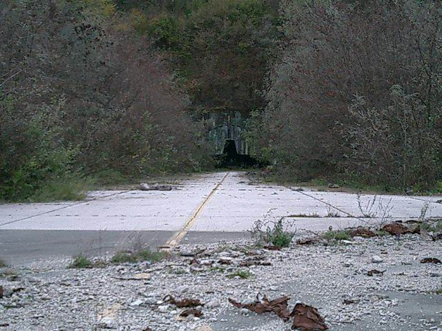 1 of 20 images made by me.